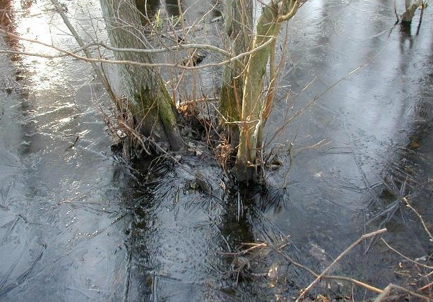 Alnus glutinosa inundated and covered in ice